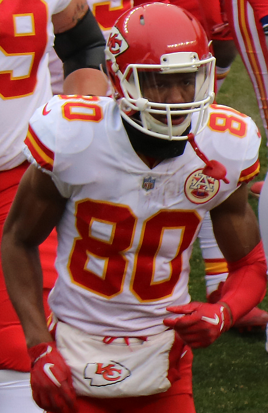 Jehu Chesson, a National Football League player.